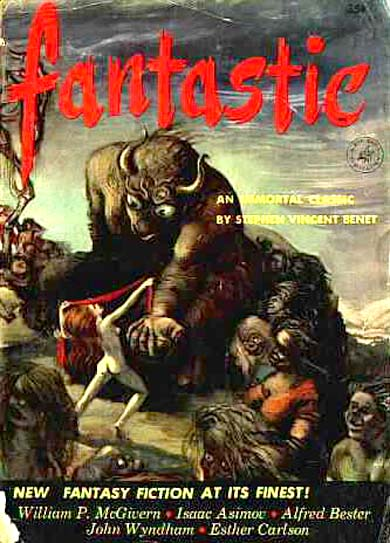 Cover of Fantastic, May-June 1953